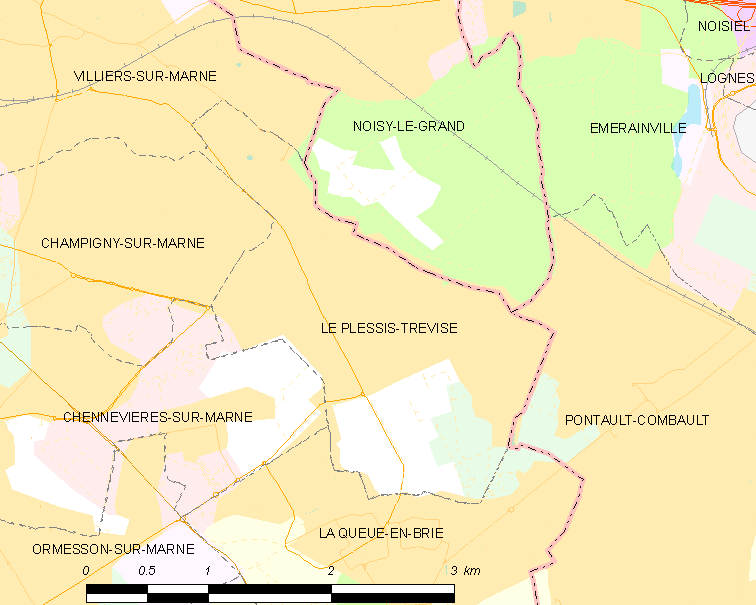 Map of French municipality Le Plessis-Trévise